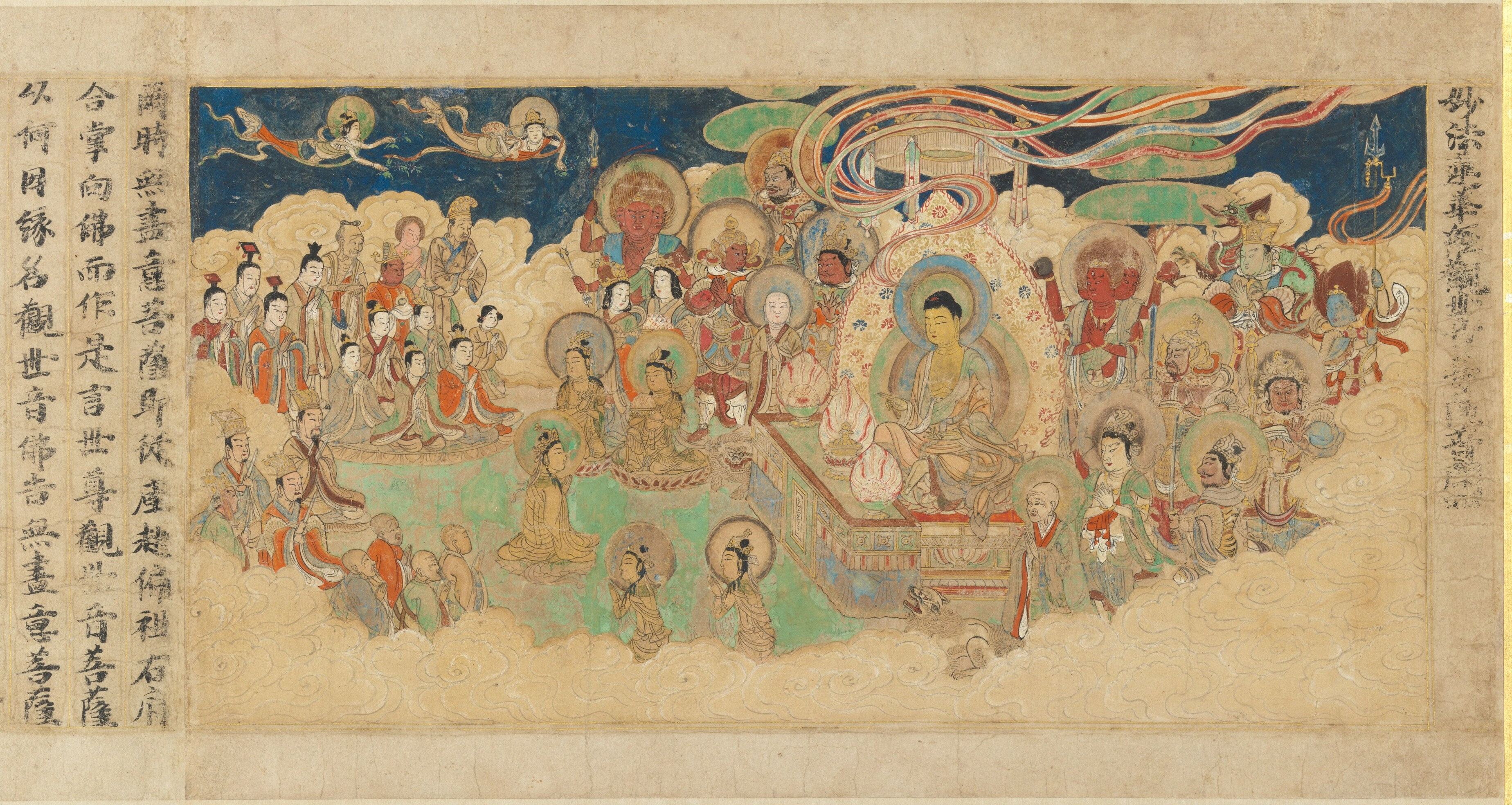 Japan; Handscroll; Paintings